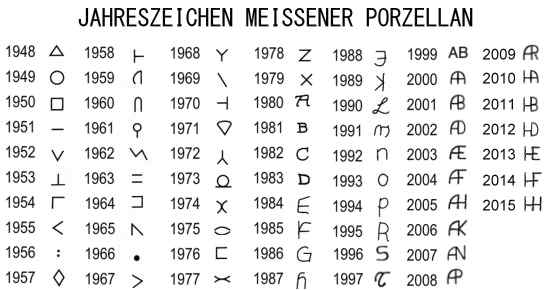 Meissen, Year Markings